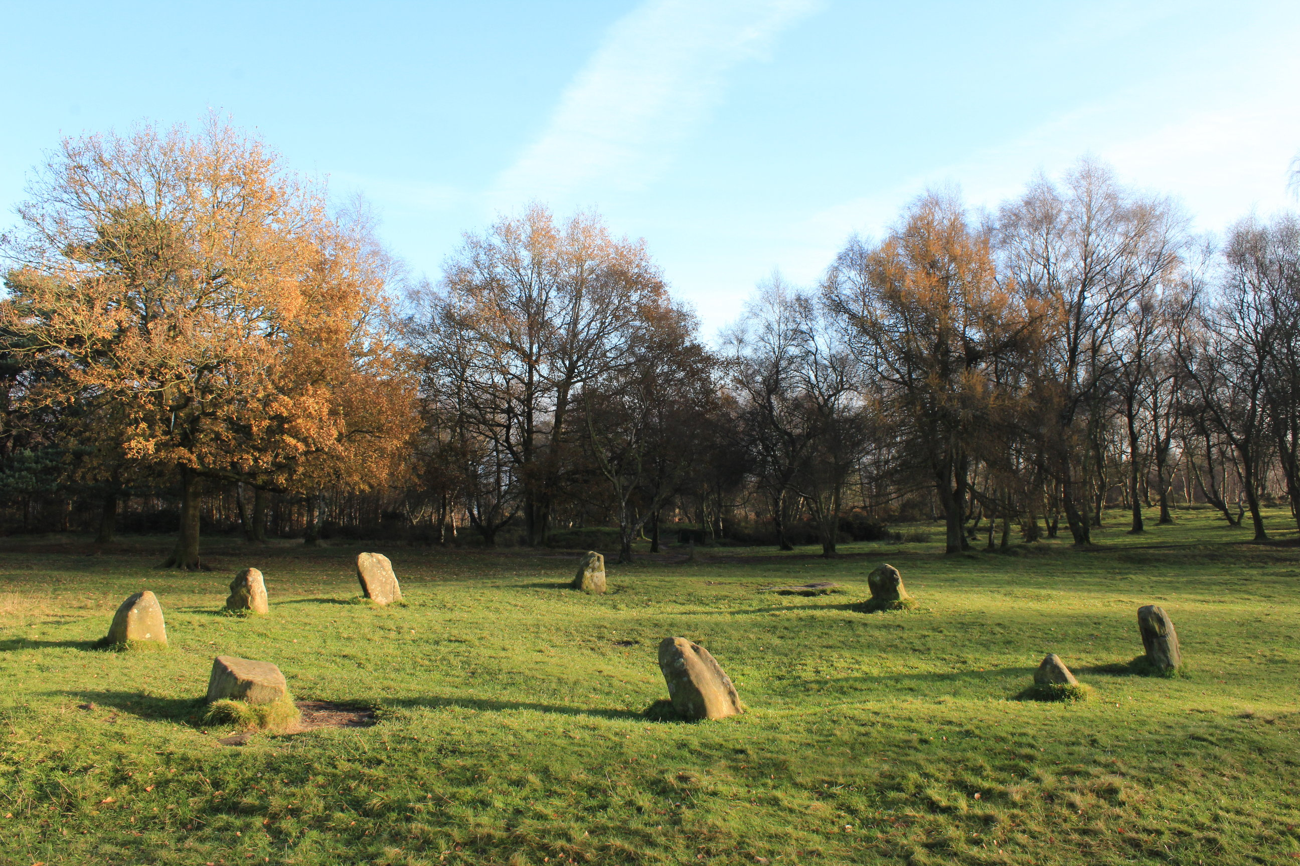 Nine Ladies stone circle on Stanton Moor in Derbyshire, England, on 26 November 2016.